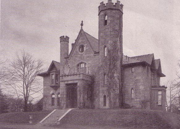 Alexander J. Davis designed "Tudor Villa" in New Rochelle, New York